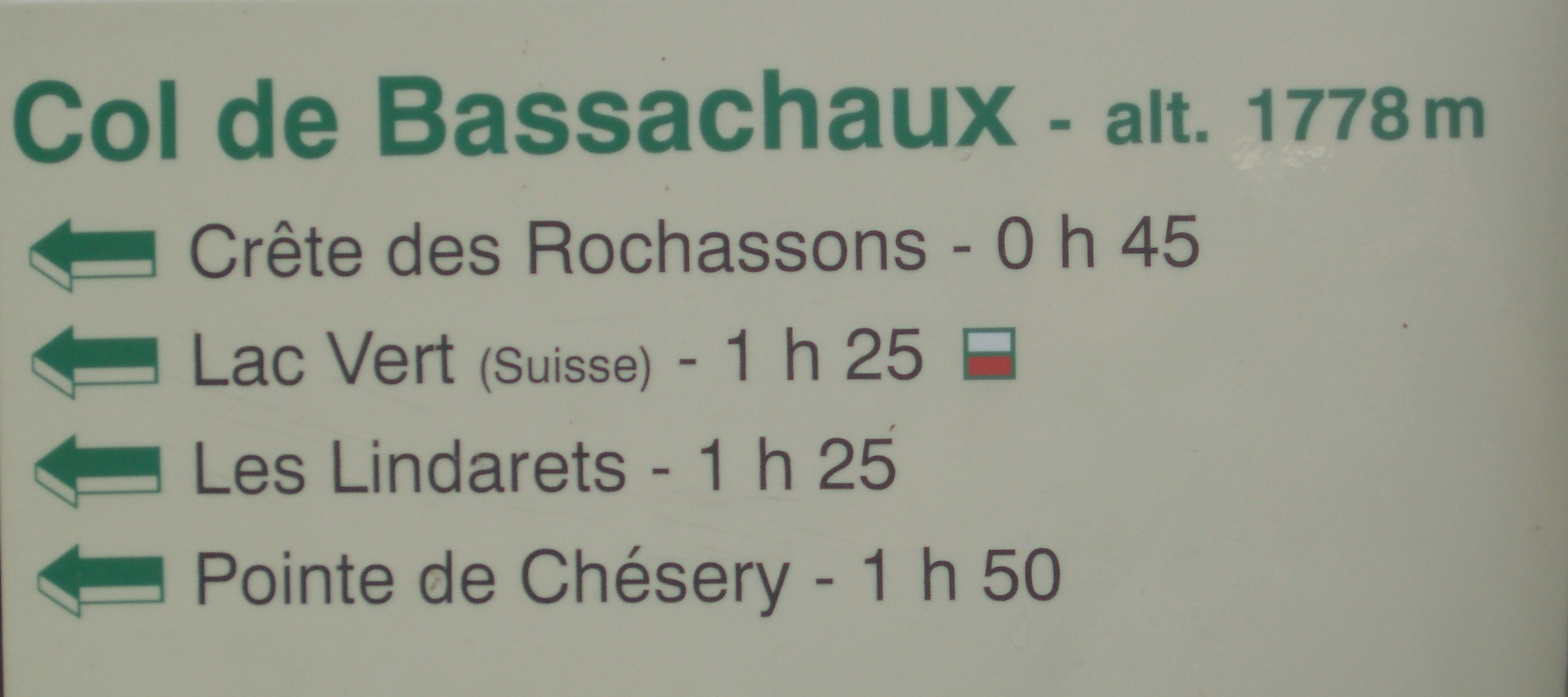 Col de Bassachaux (Haute-Savoie, France) - August 2006